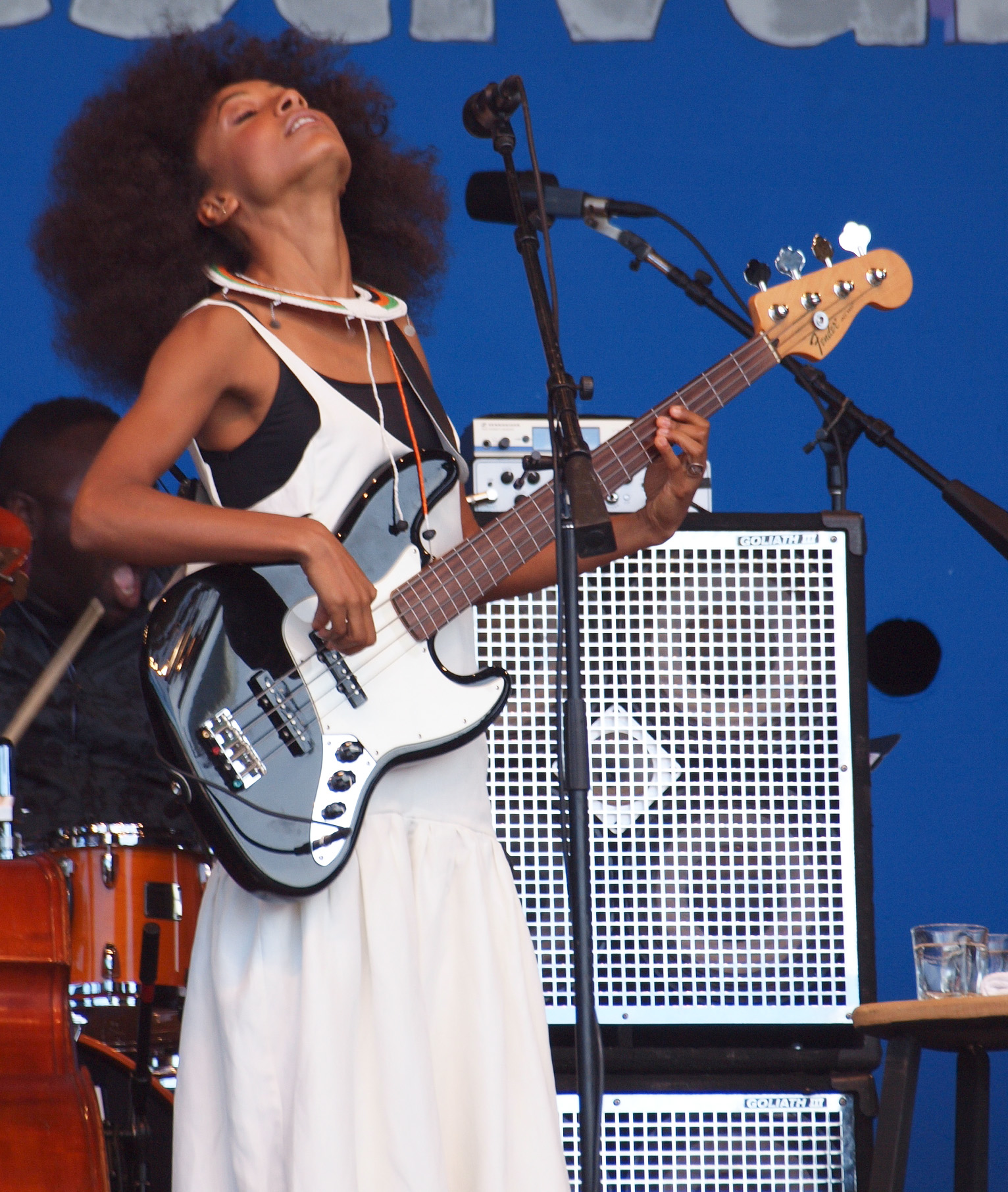 Esperanza Spalding performs at the 2012 Monterey (Calif.) Jazz Festival.